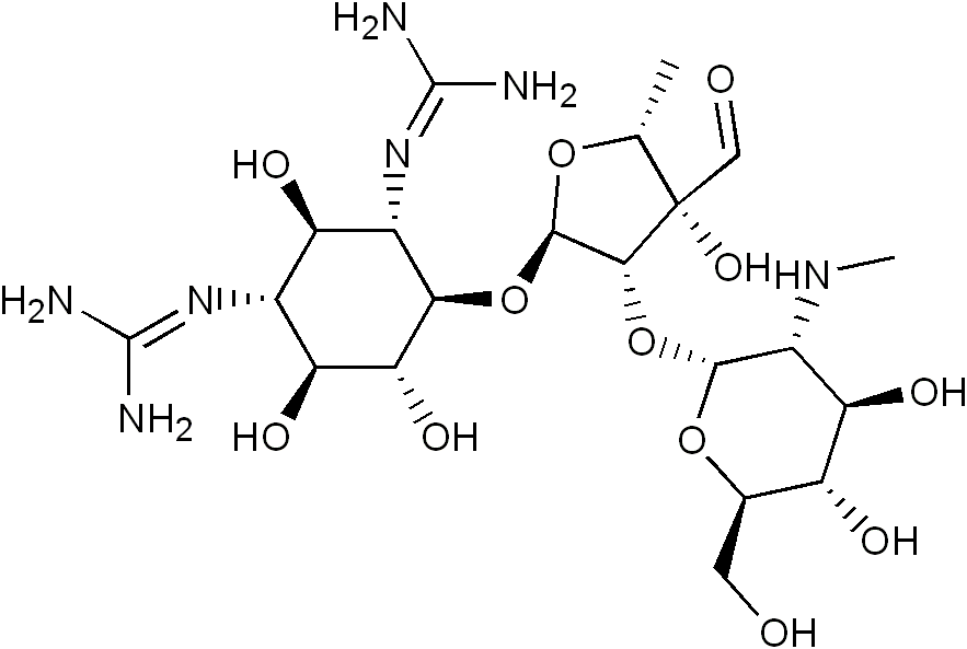 Chemical structure of Streptomycin. Created with ChemDraw.